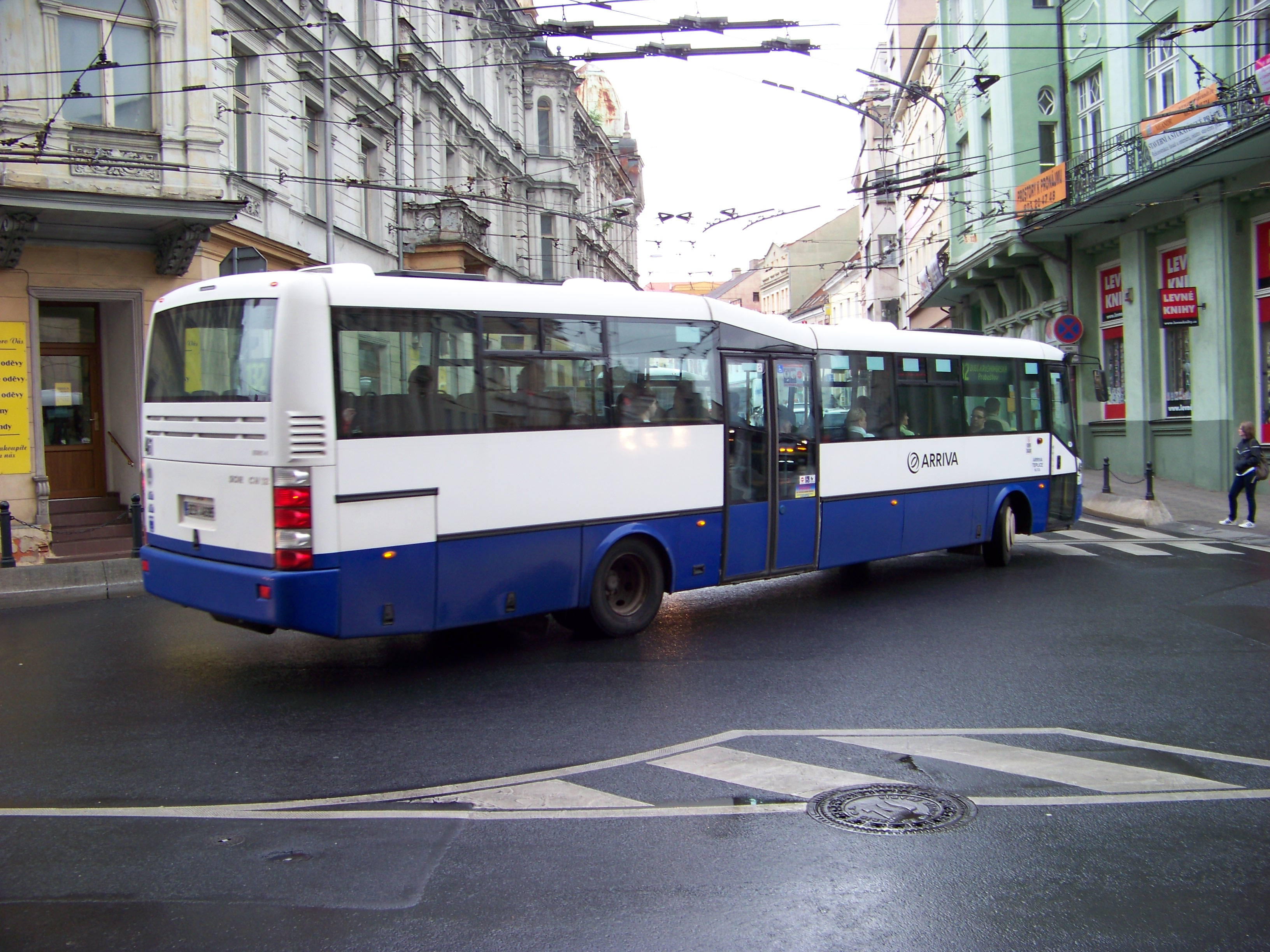 Teplice, Teplice District, Ústí nad Labem Region, Czech Republic. Školní street, from Masarykova třída, a bus of Arriva Teplice.